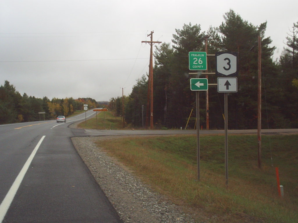 Eastbound on New York State Route 3 at Franklin County Route 26 (former New York State Route 99) in the town of Franklin.